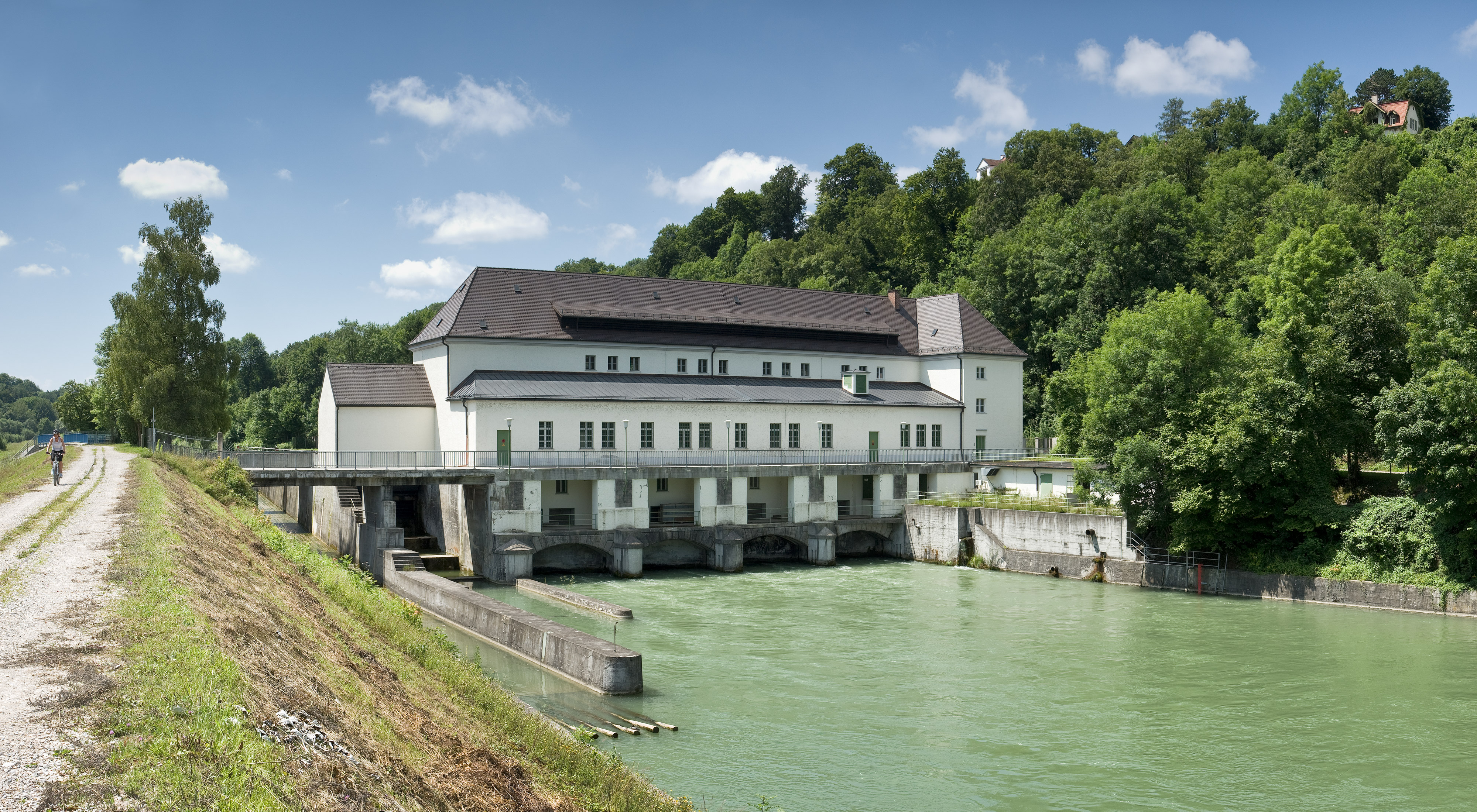 River powerplant Pullach